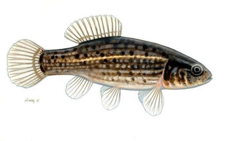 This fish is Umbra krameri from species of fish in the Umbridae family. It is found in Austria, Croatia, the Czech Republic, Hungary, Moldova, Romania, Serbia, Slovakia, Slovenia, and Ukraine.